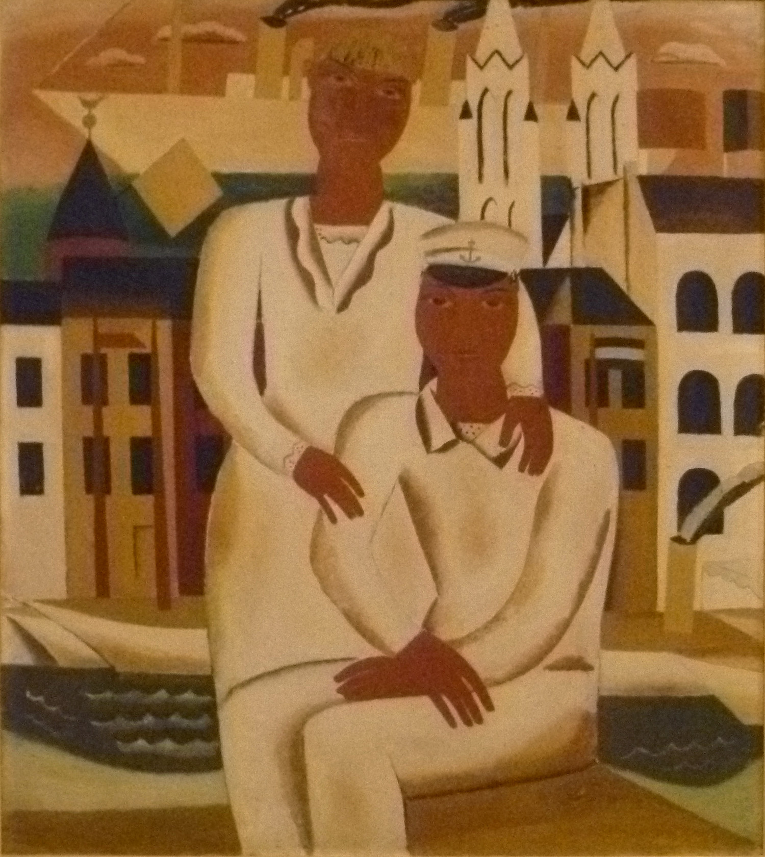 "The young captain" (1927), oil on canvas by the Belgian expressionist painter Gustave De Smet; in private collection